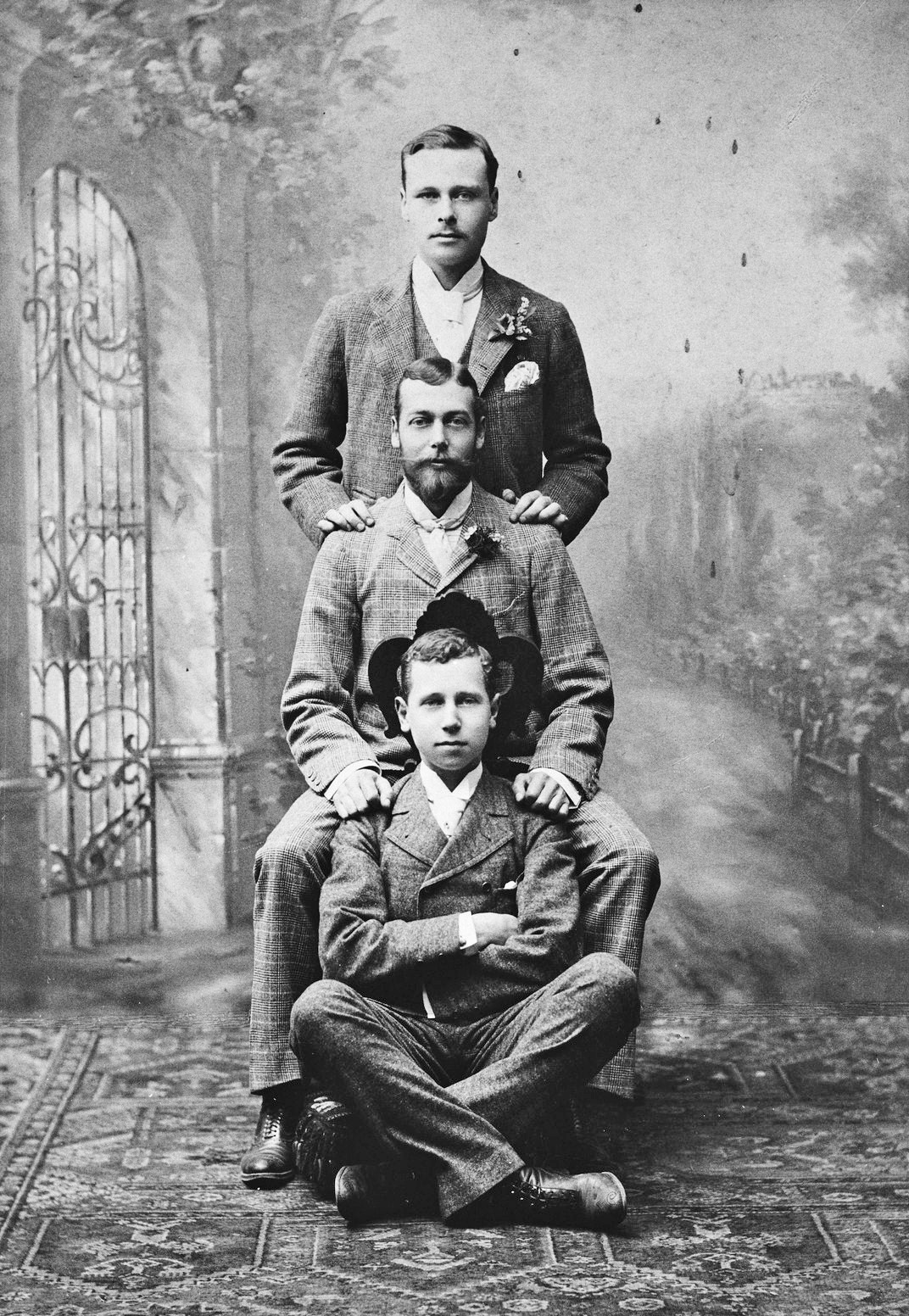 Group photograph of Prince Ernest Louis of Hesse (1868-1937) later the Grand Duke of Hesse; Prince George of Wales (1865-1936) later King George V, and Prince Alfred of Edinburgh (1874-1899) later Prince Alfred of Saxe-Coburg and Gotha, arranged in a position of high to low order with Prince Ernest Louis standing, Prince George seated and Prince Alfred sitting on the ground.